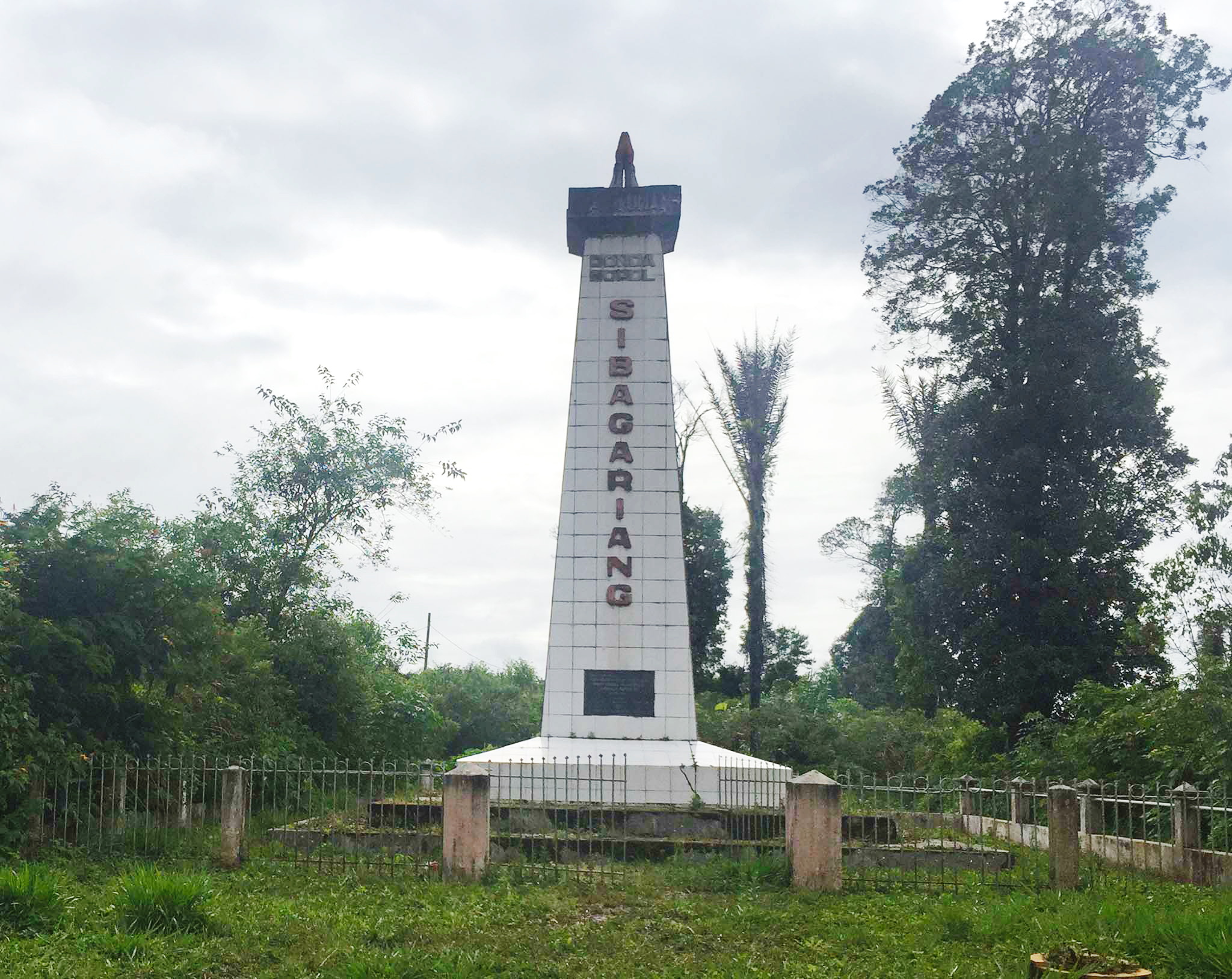 monument of Donda Hopol Sibagariang in Sipoholon